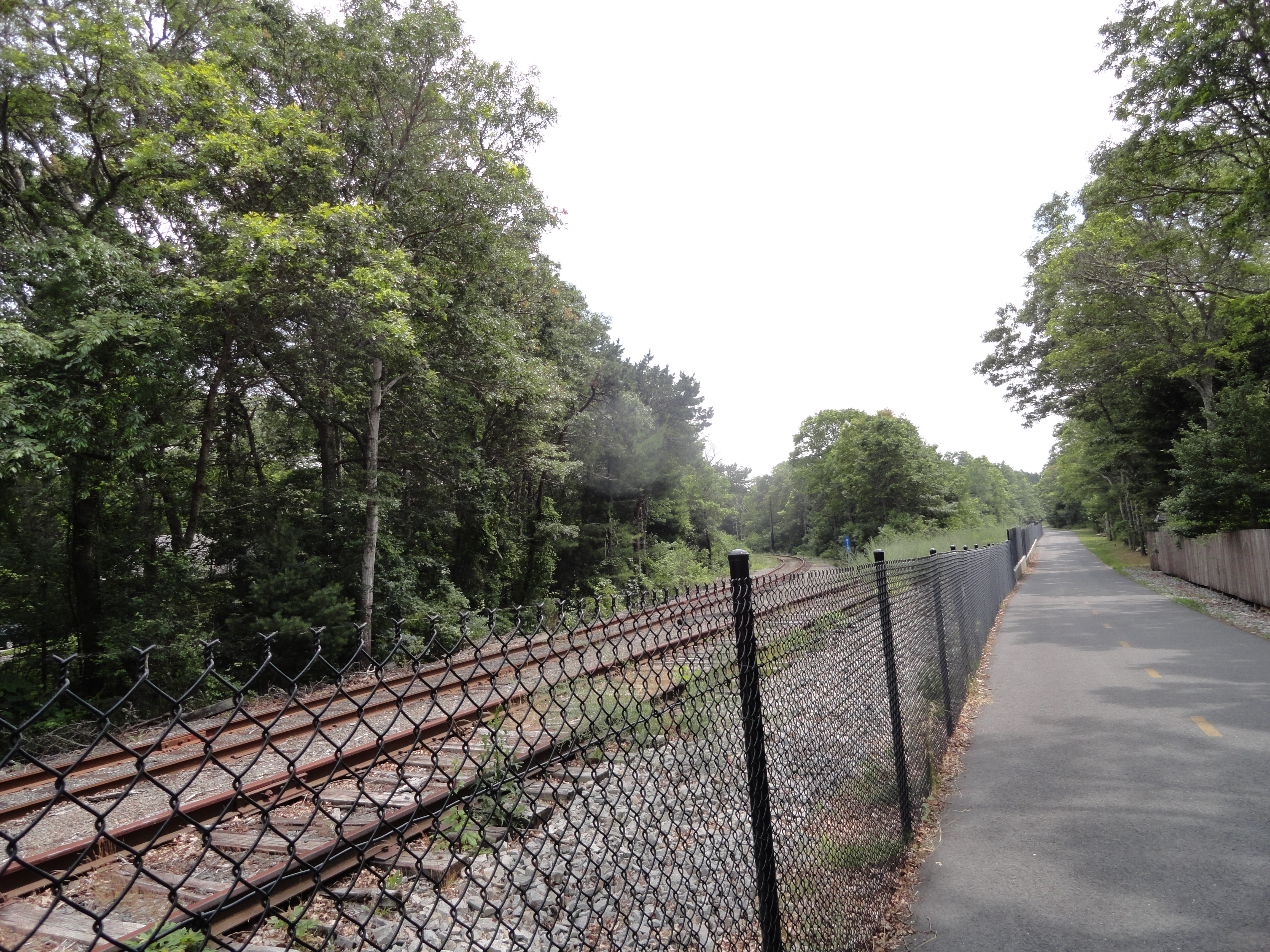 Splitting of the Woods Hole Branch to Camp Edwards along the Shining Sea Bikeway.